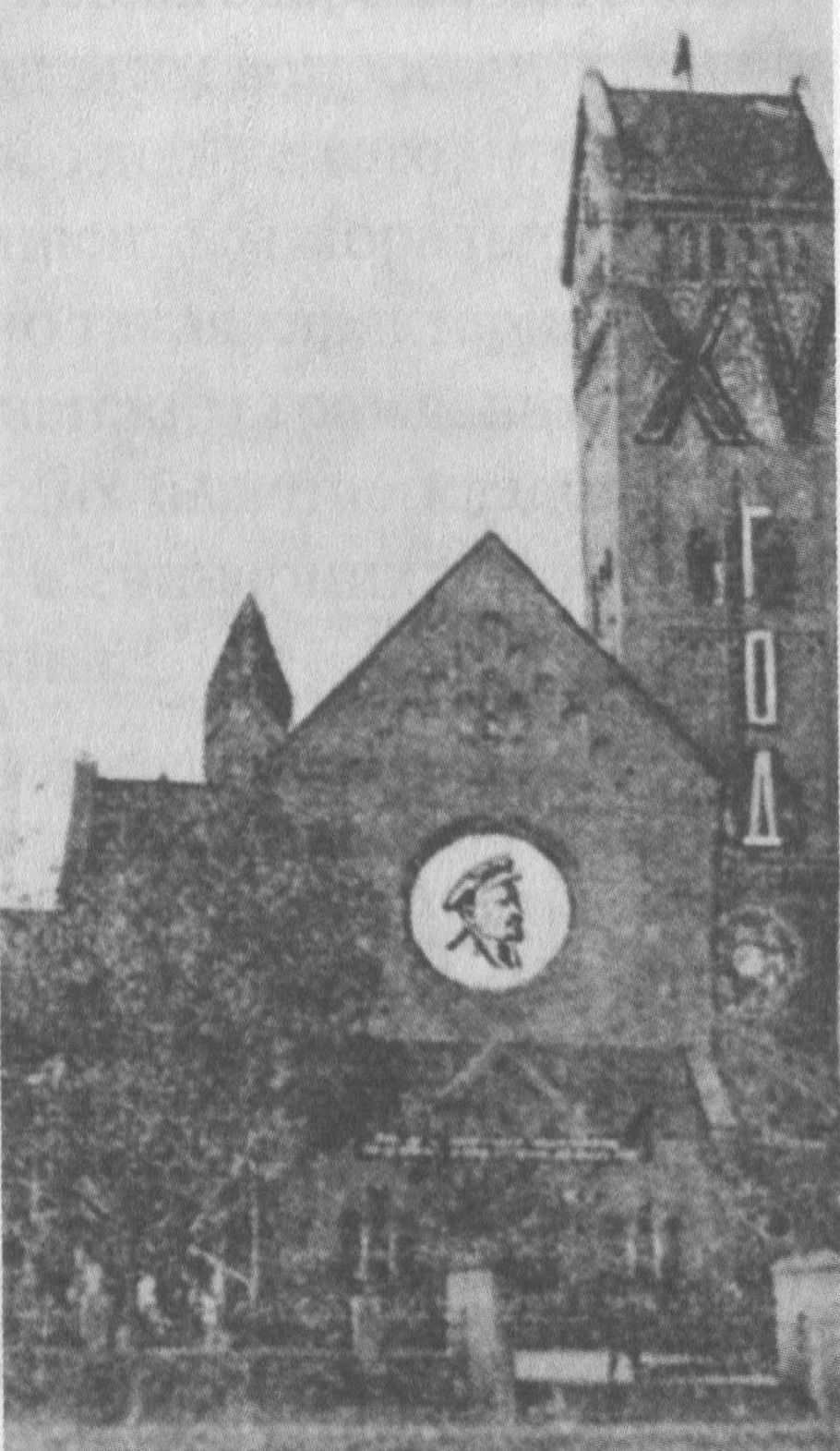 Revolution's festive decoration on the Church of Saints Simon and Helena (Minsk, Belarus), 1932 AD